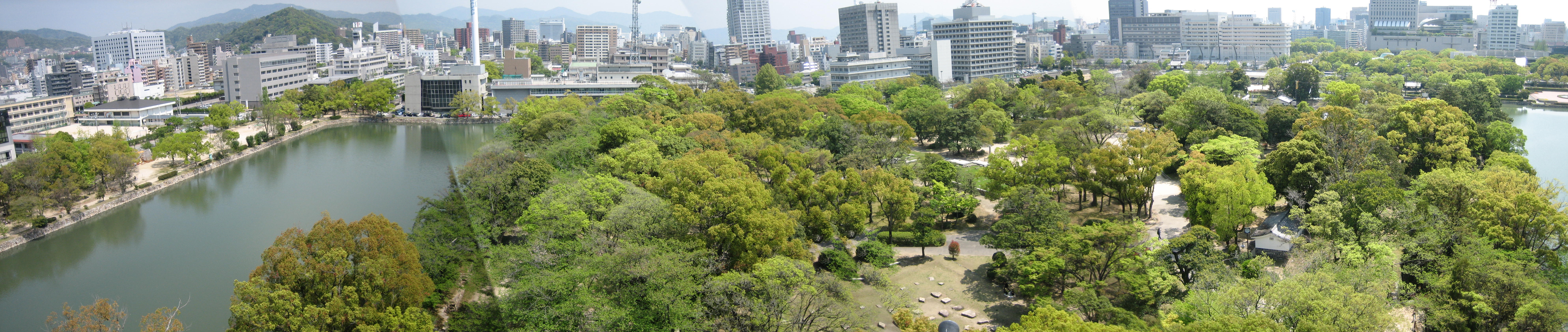 panorama view from top of the keep